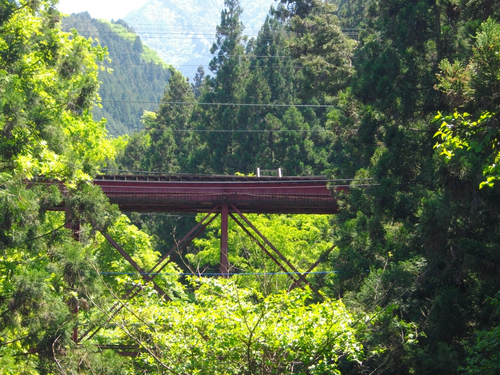 Chichibu Railway Ottezawa Bridge